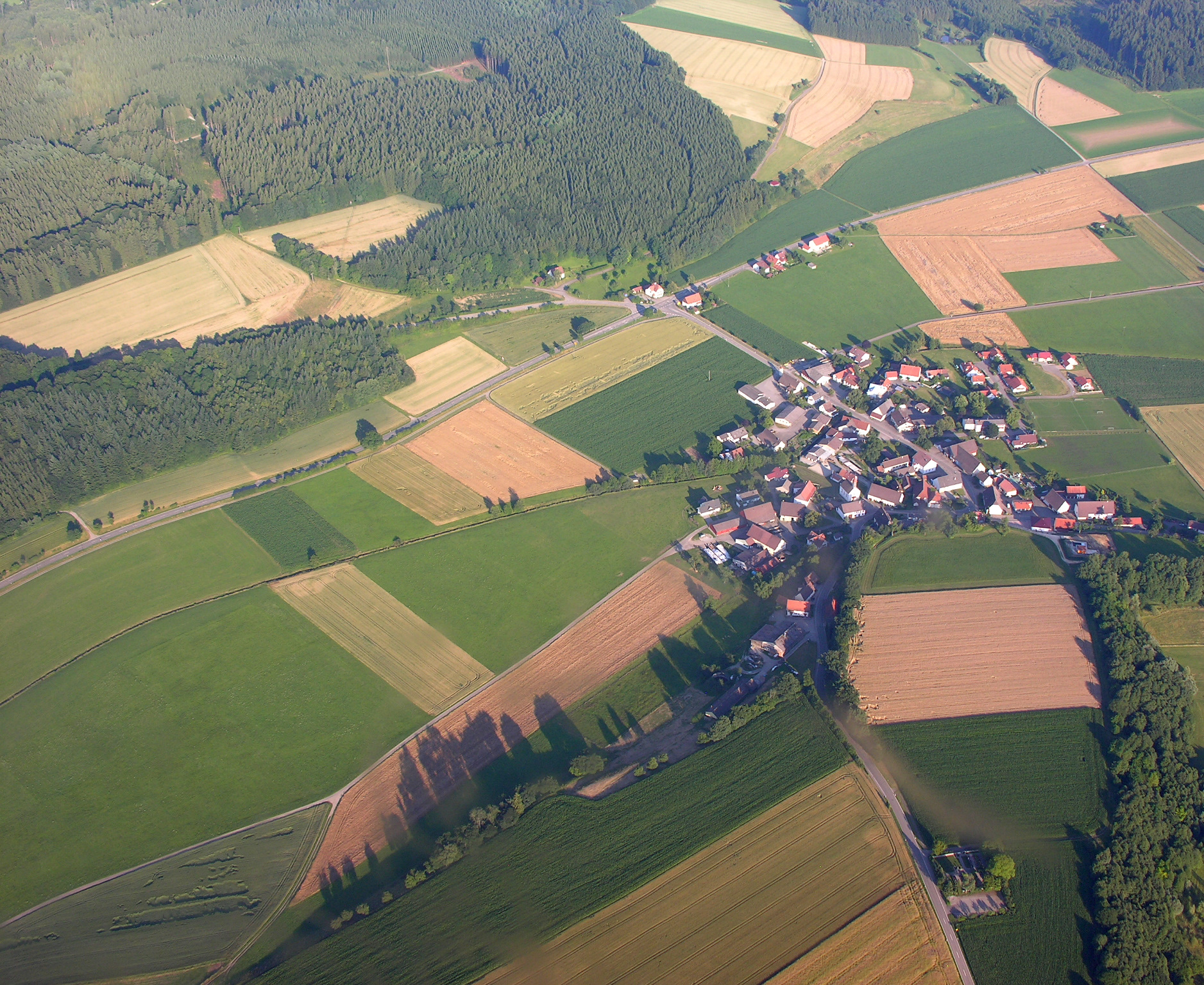 Aerial View of Otterswang